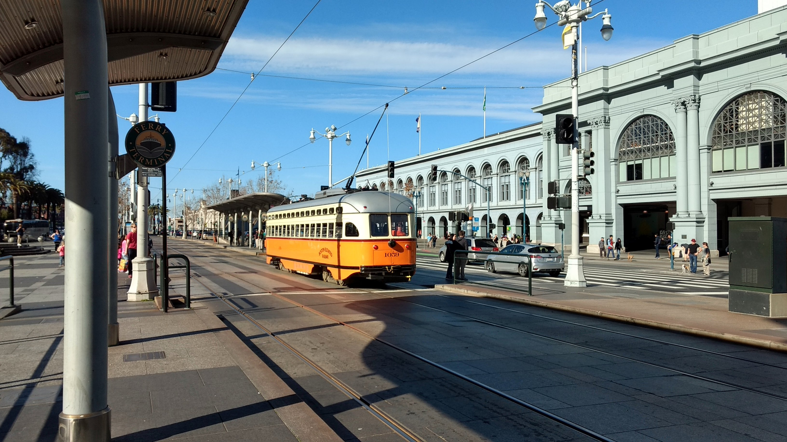 Muni PCC #1059 as F Market & Wharves northbound at the Ferry Building in February 2018